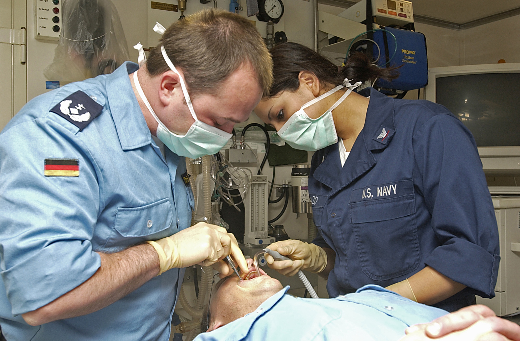 Hospital Corpsman Petty Officer 3rd Class Johanna K. Lazo assists Major Dr. Sascha Glistau of the German Luftwaffe (air force) aboard the German frigate Sachsen (F 219). Lazo, who is assigned to the guided missile destroyer USS Mahan (DDG-72) which is the flag ship for the Standing NATO Maritime Group One (SNMG-1), a joint allied maritime task force, cross-decked to the Sachsen to learn about German medical procedures at sea.